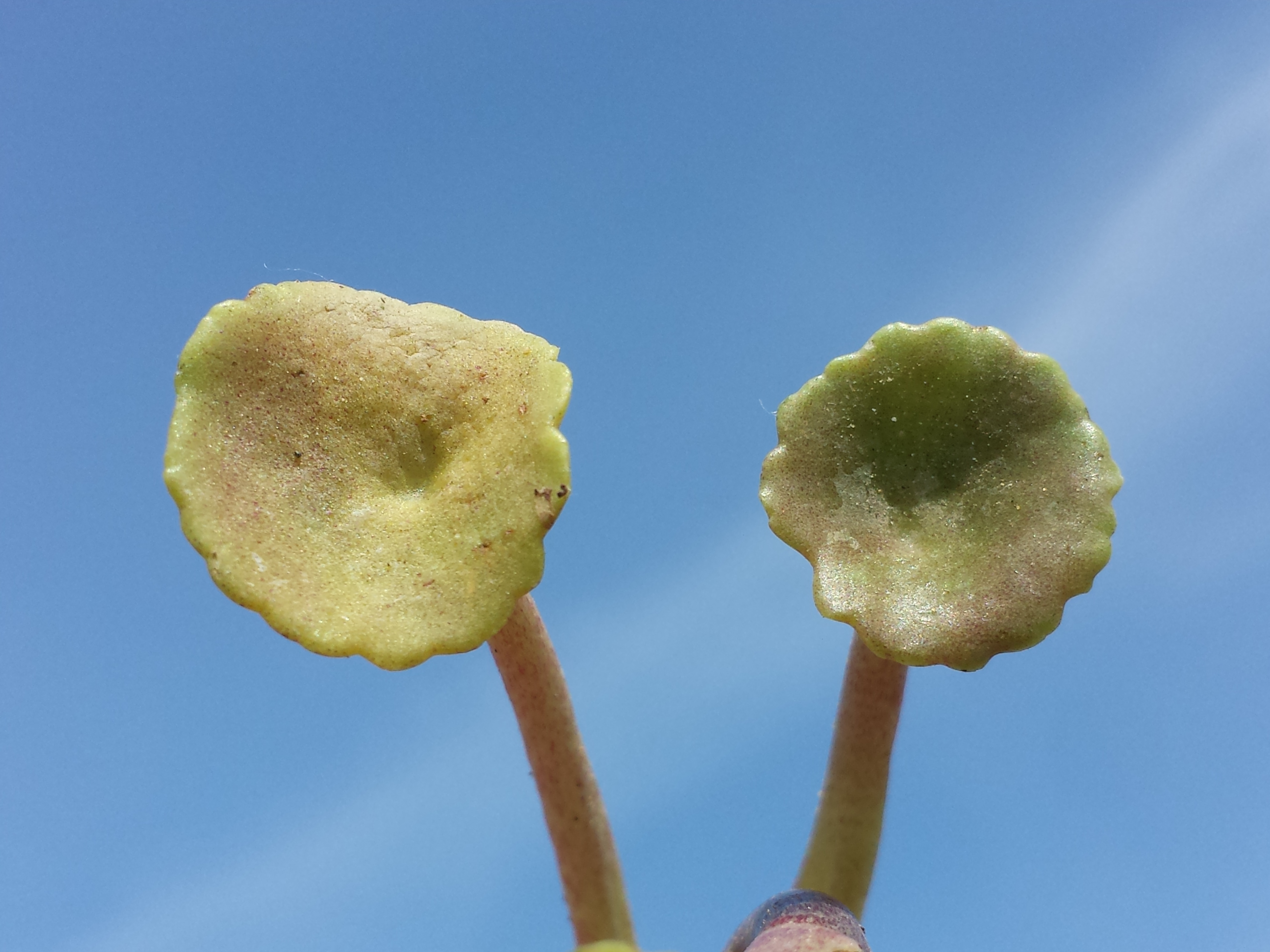 Leaves Taxonym: Umbilicus horizontalis ss Rottensteiner: Exkursionsflora für Istrien ISBN 978-3-85328-067-6 Location: Porat, Krk, County Primorje-Gorski kotar, Croatia Habitat: stone wall